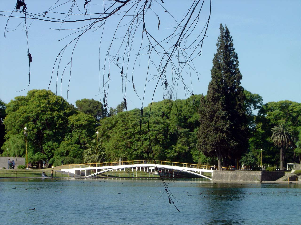 Image: San Miguel Lake at the 9 de Julio Park Author: jlazarte